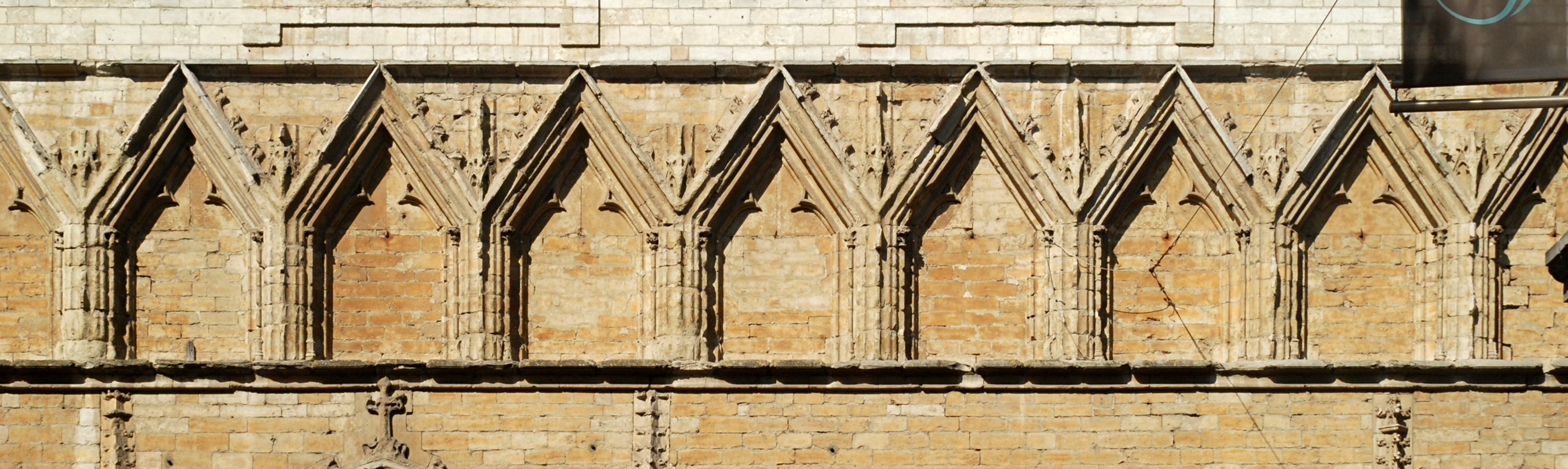 Belgium - Leuven - University Hall